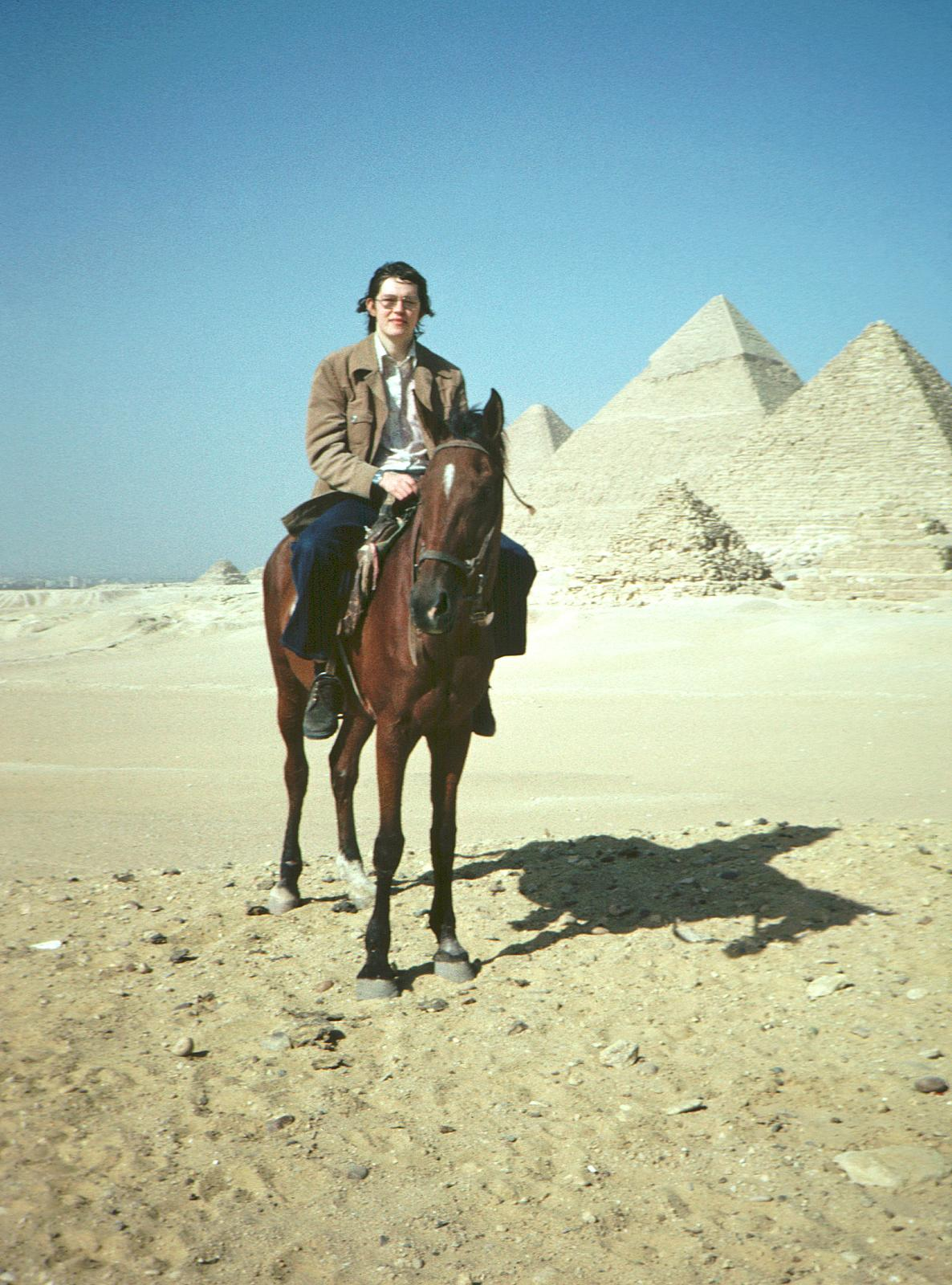 Scanned from a slide, photographed in December 1978. Yes, it was hot in that jacket but it contained my passport, airline tickets, money, travelers cheques etc. Before the days of bumbags...